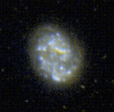 An ultraviolet image of NGC 4618 taken with GALEX. Credit: GALEX/NASA.